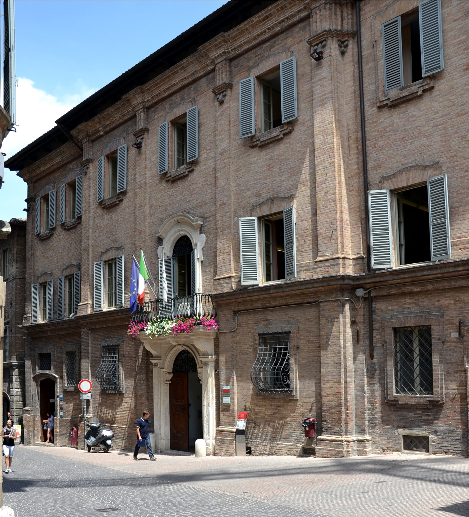 Palast Corboli from Urbino in the Papal States